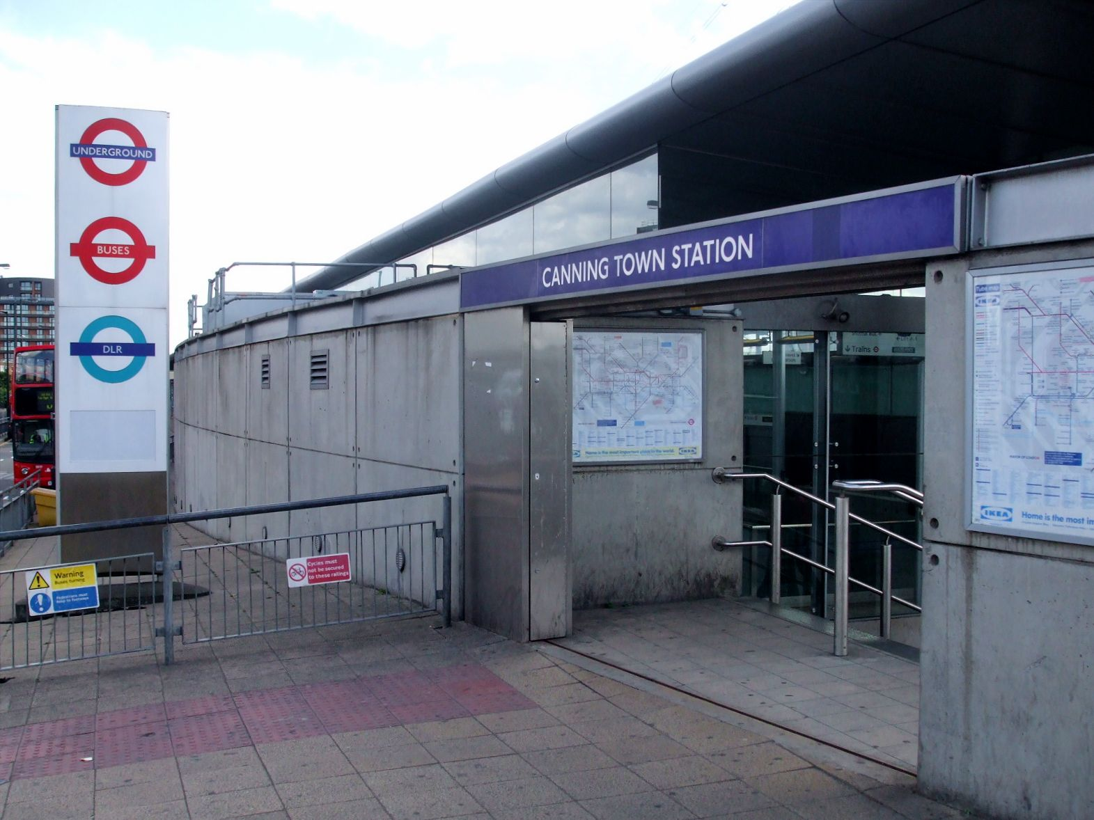 Northern entrance to Canning Town station, next to Canning Town roundabout.